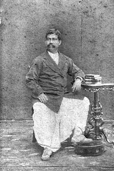 Ruplal Das was a Hindu merchant who bought a mansion later renamed to Ruplal House